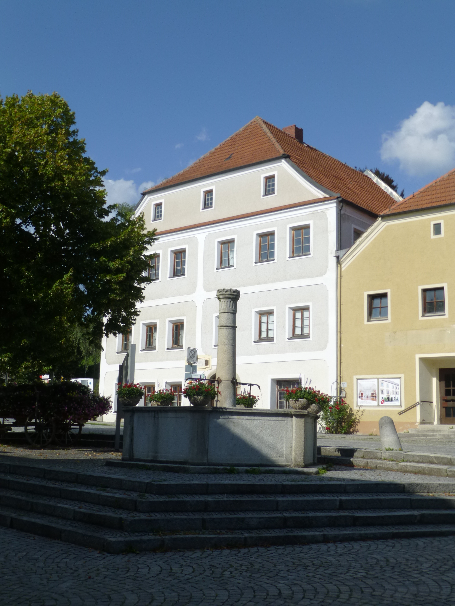 Ortenburg fountain, main place.